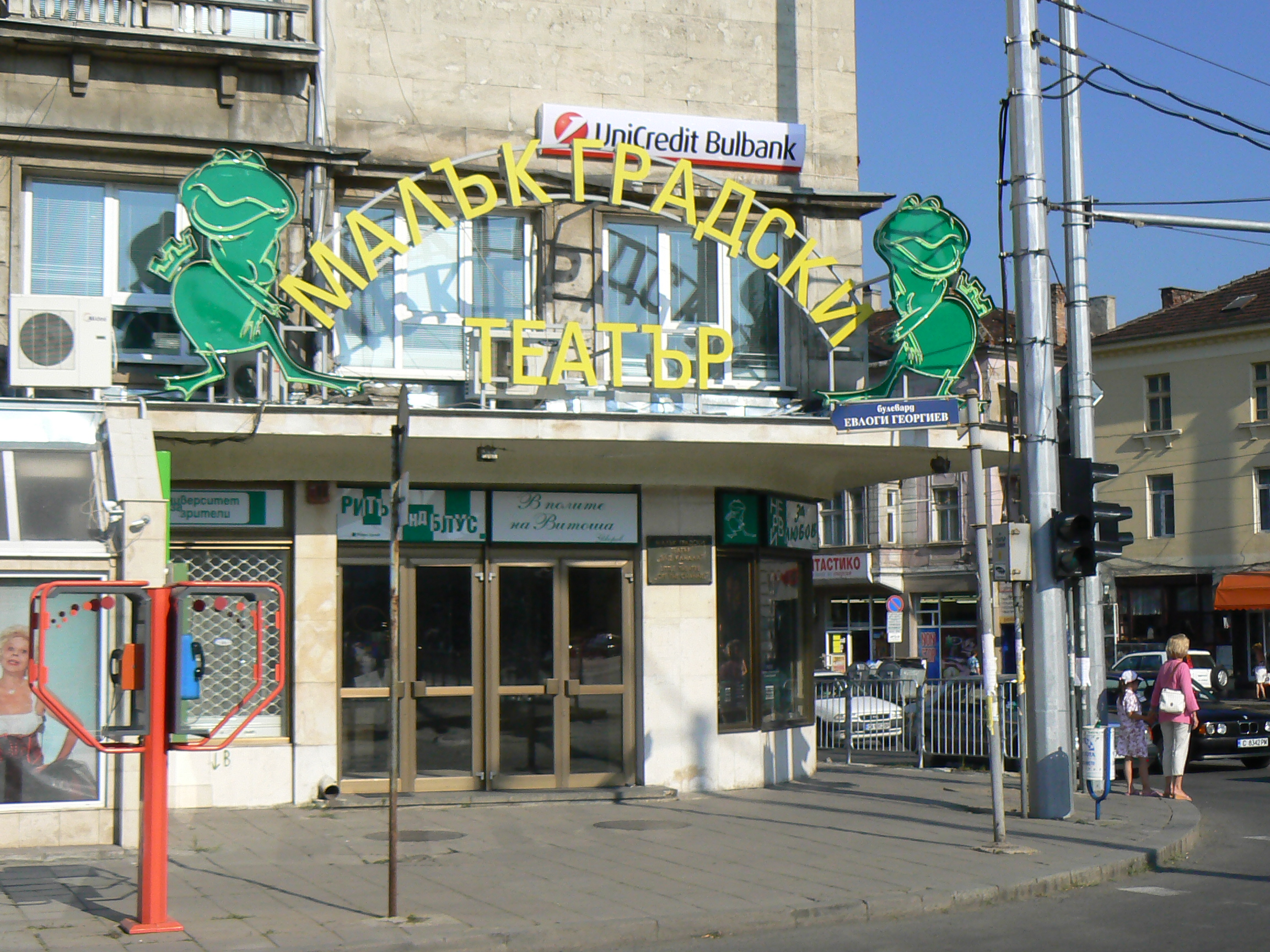 Little City Theatre "Off the Channel", Sofia, Bulgaria